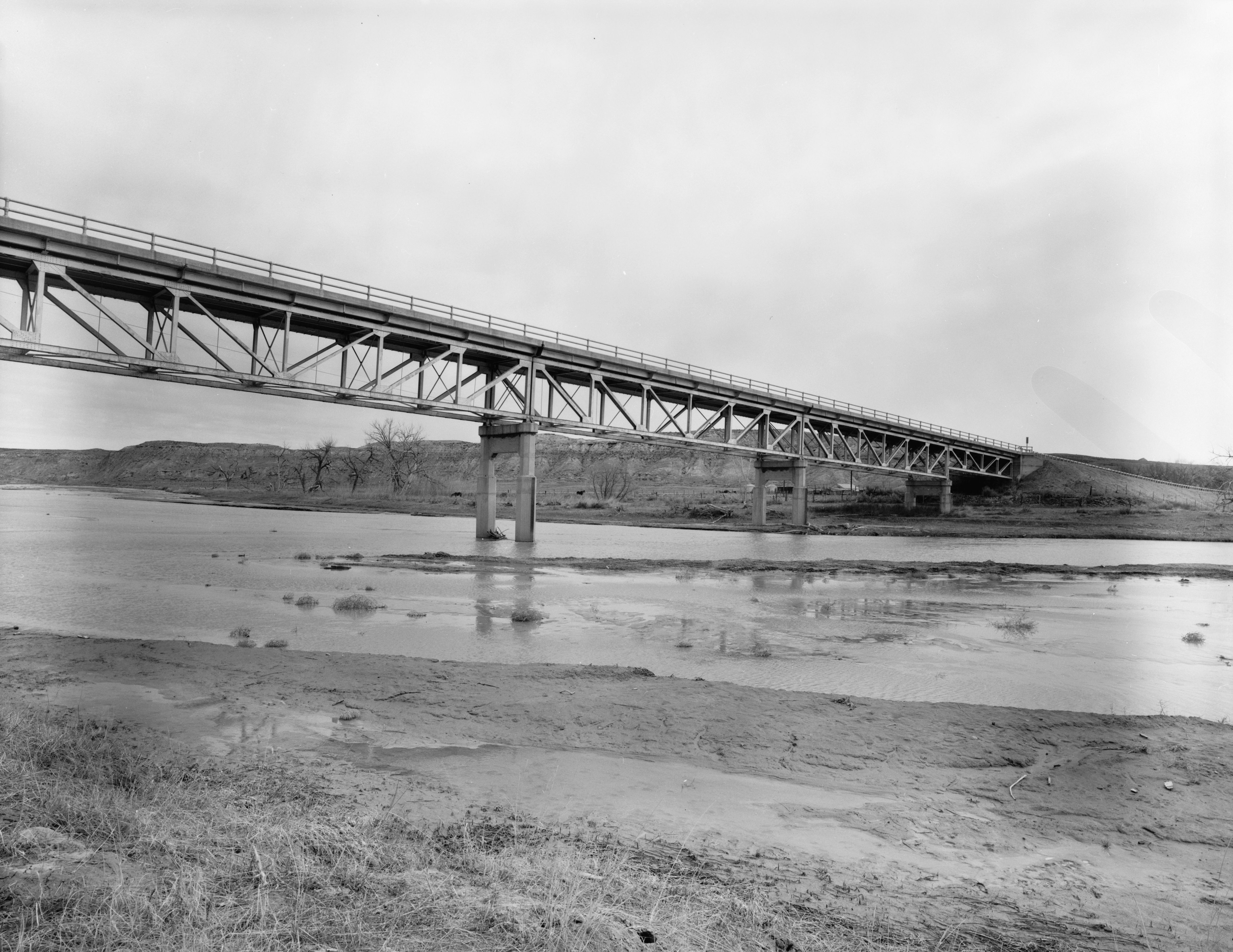 Northern side of the CKW Bridge over Powder River, which carries U.S. Routes 14 and 16 over the Powder River near Arvada in Sheridan County, Wyoming, United States. Built in 1932, this Pratt deck truss bridge is listed on the National Register of Historic Places.